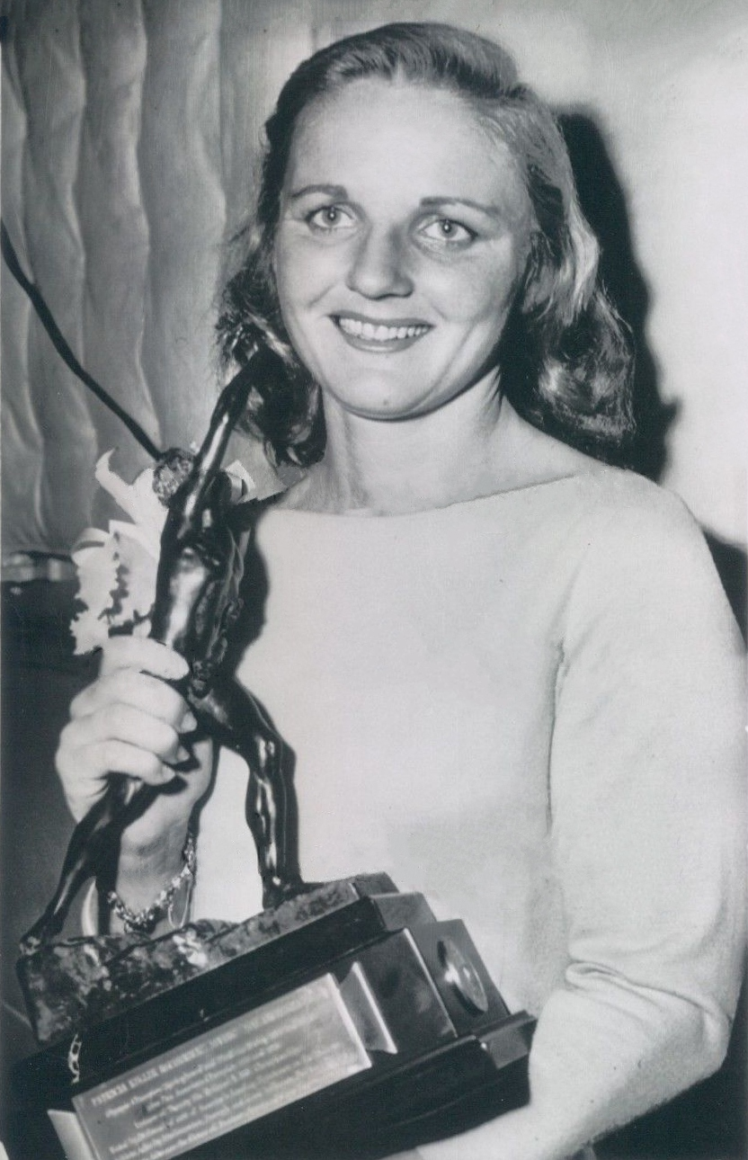 1957 Swimmer Pat McCormick Holds Sullivan Trophy Press Photo